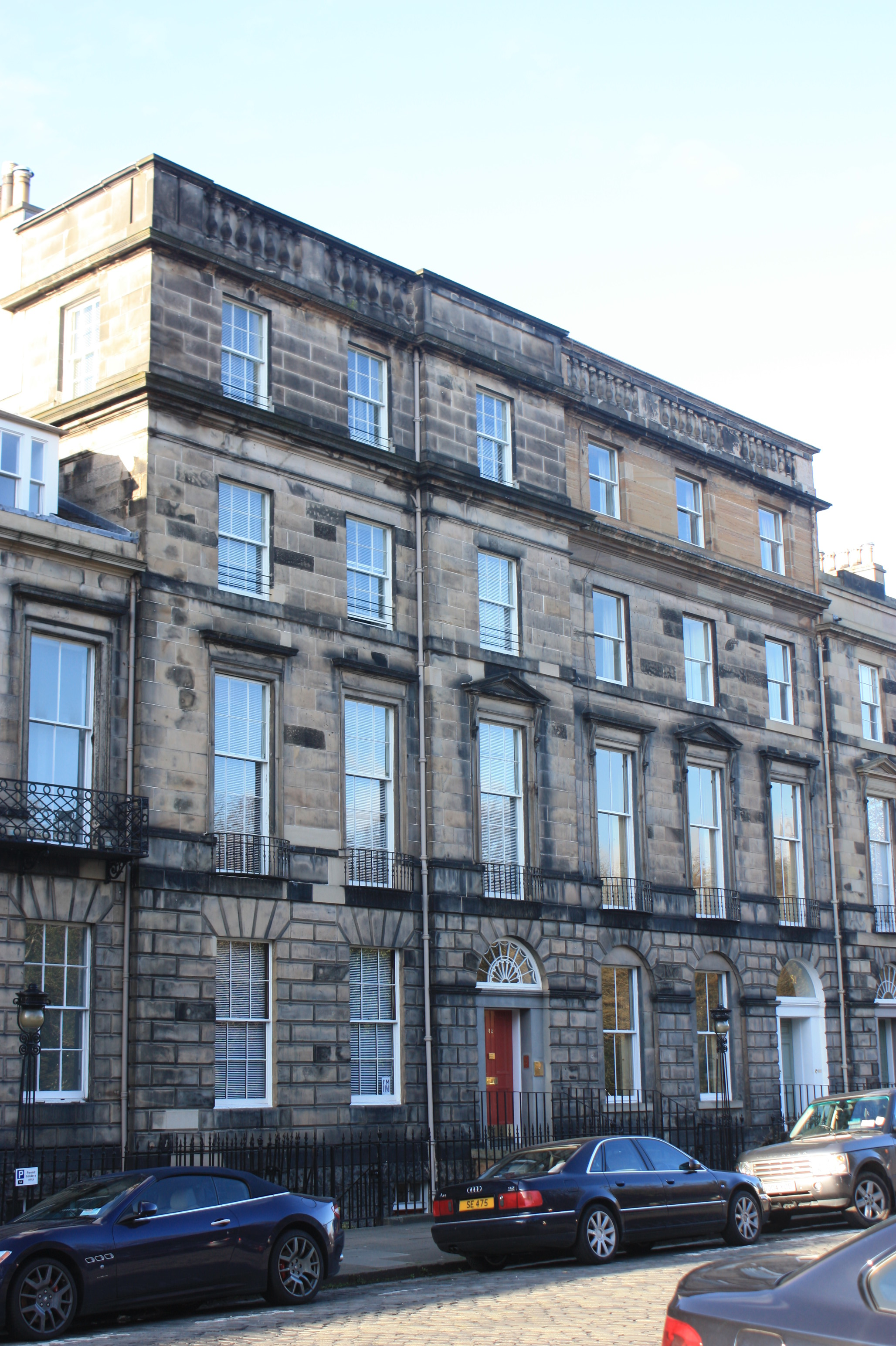 31 and 32 Heriot Row, Edinburgh